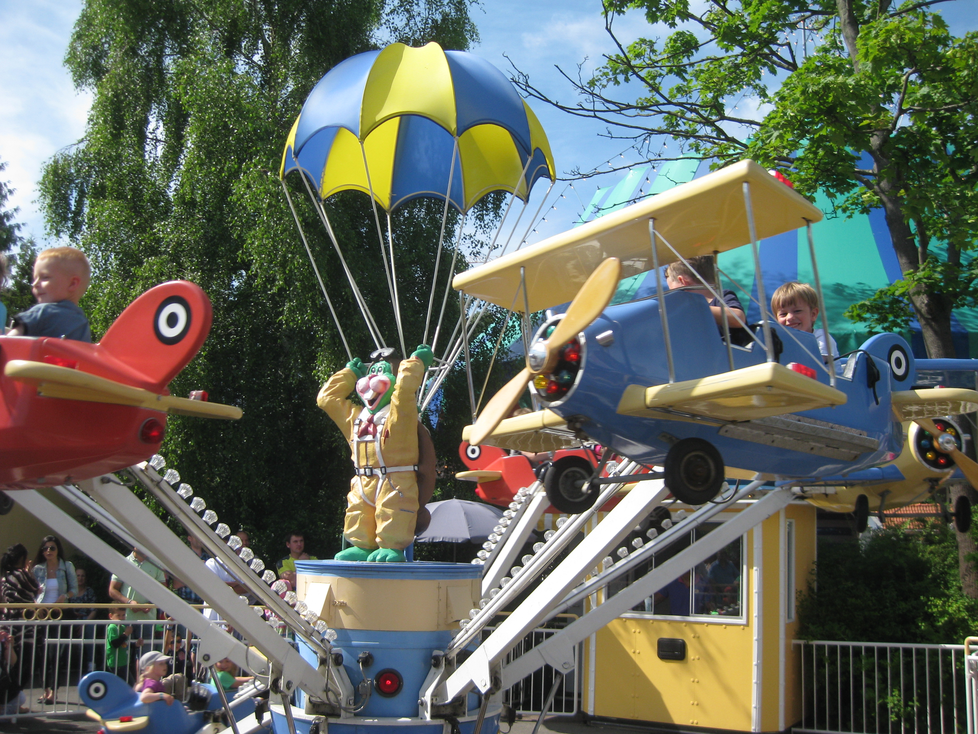 The ride Flygkarusellen at the amusement park Liseberg in Gothenburg, Sweden.